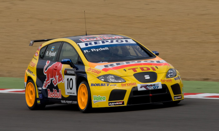 Rickard Rydell (SEAT Sport) at the 2008 WTCC Brands Hatch race.